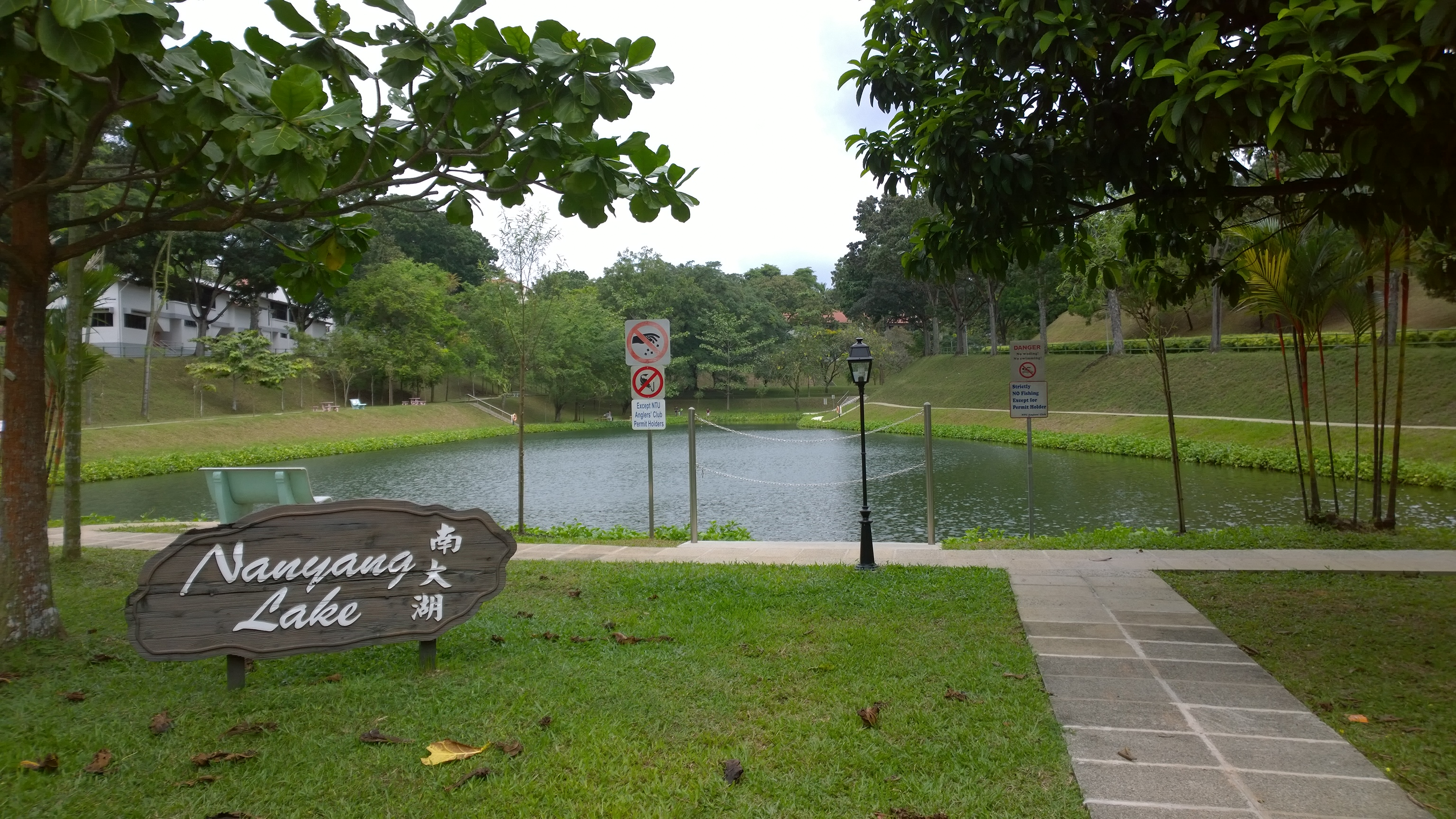 View of Nanyang Lake in Nanyang Technological University, Yunnan Campus, Singapore, after renovation works done in late 2014.